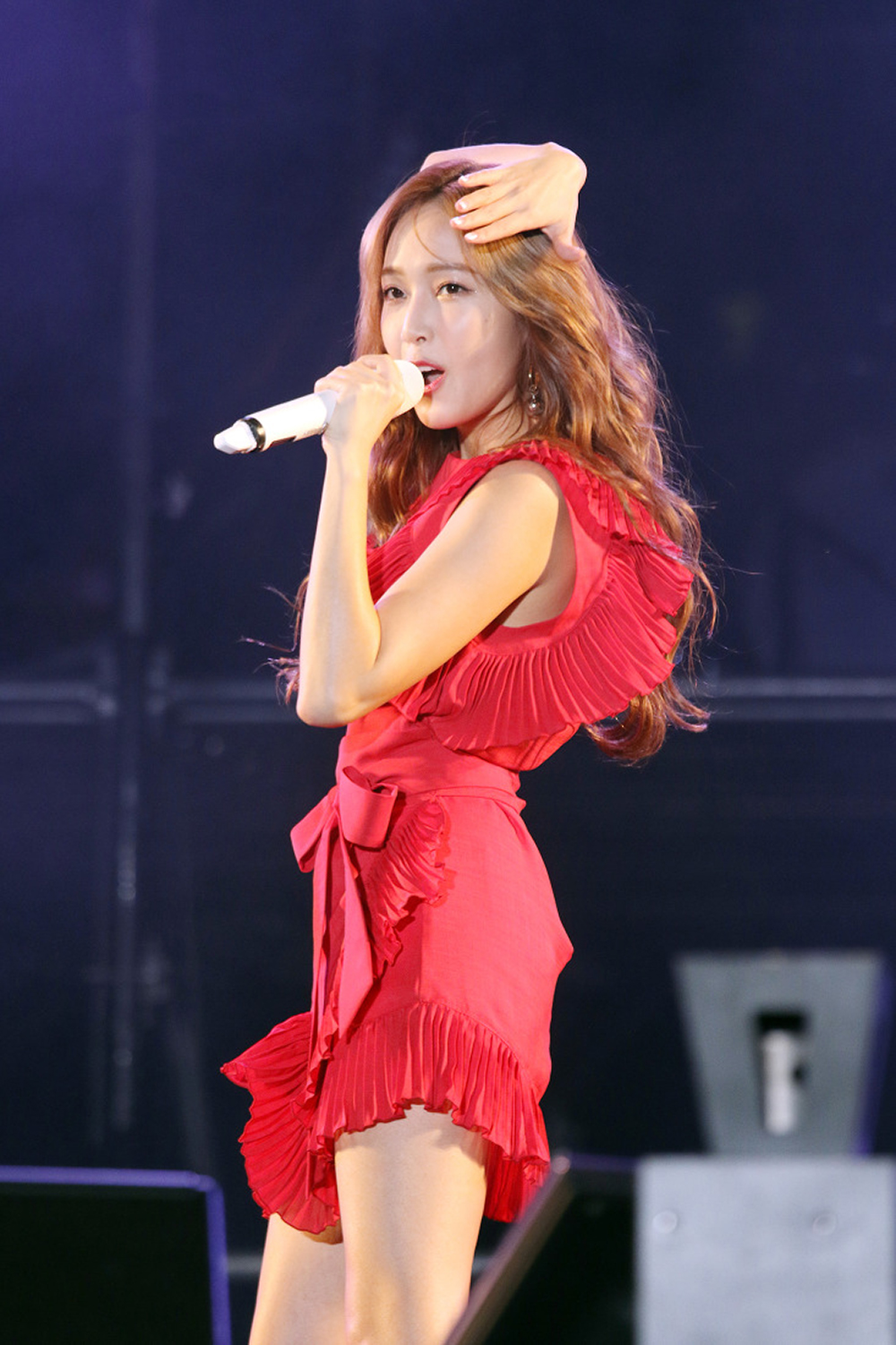 Jessica Jung performing at Ipselenti Korea University Campus Festival, in May 2016.